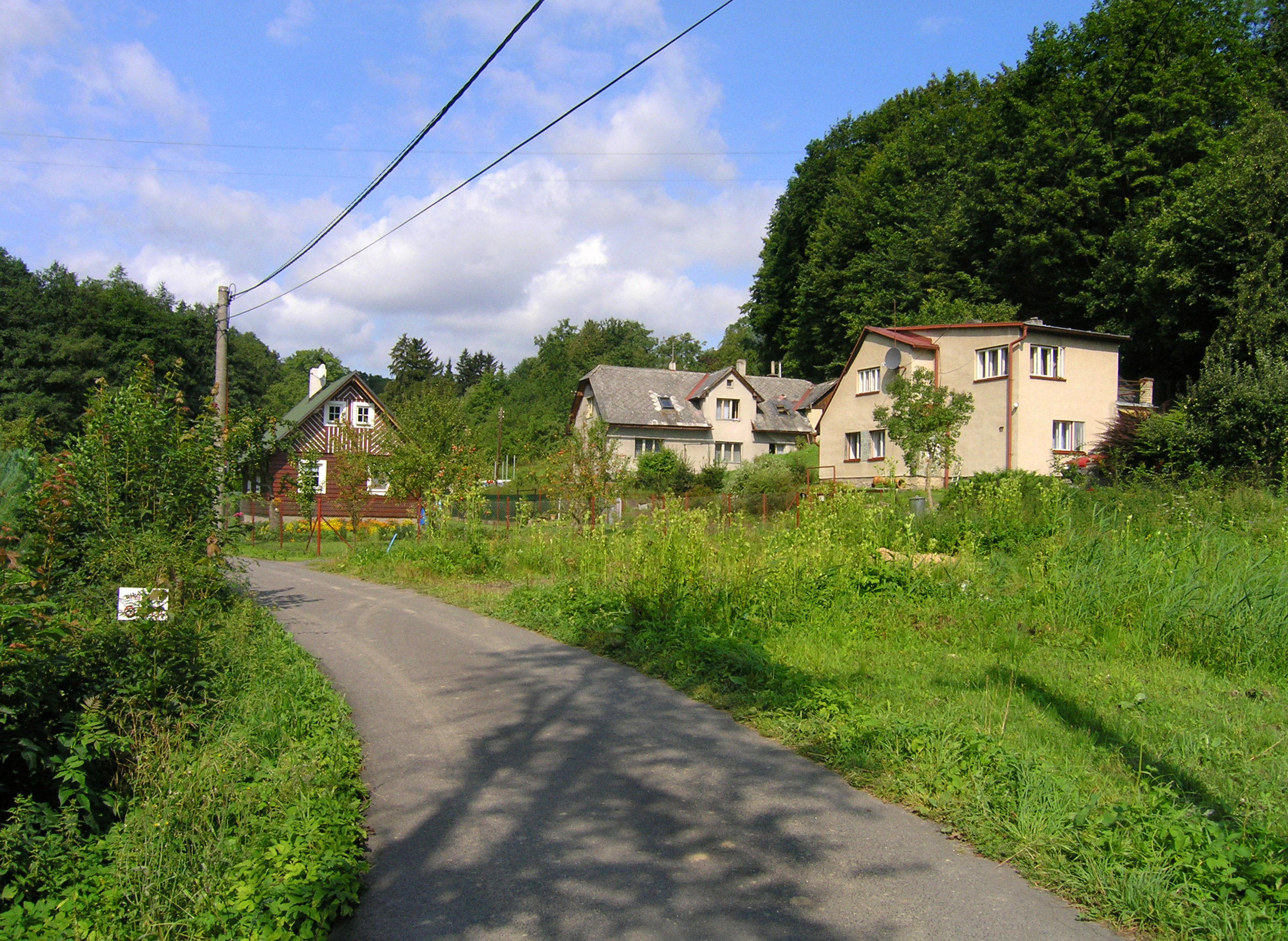 Vazovec village, part of Turnov, Czech Republic